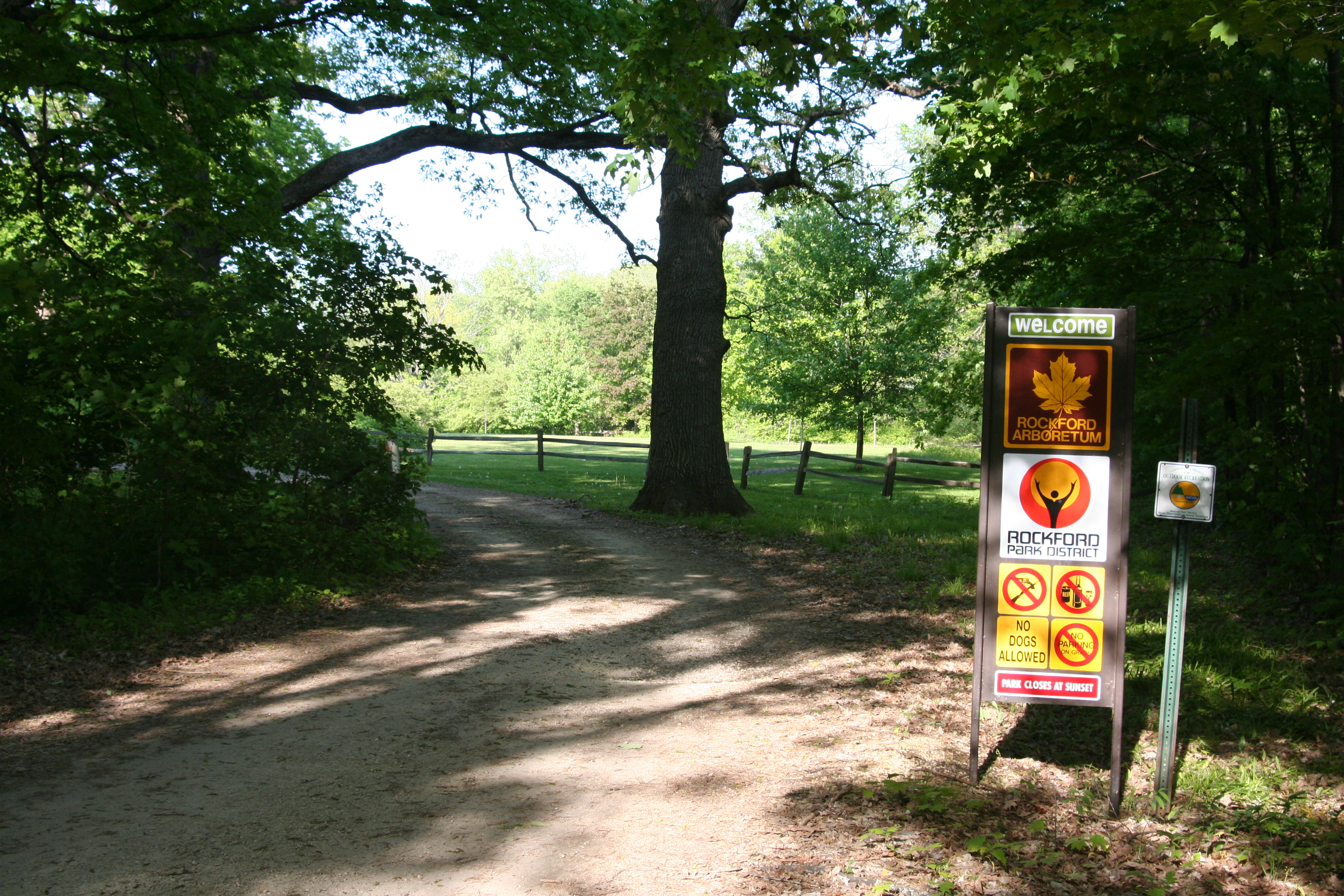 The Rockford Arboretum located on Mulford Road in Rockford, Illinois, USA.